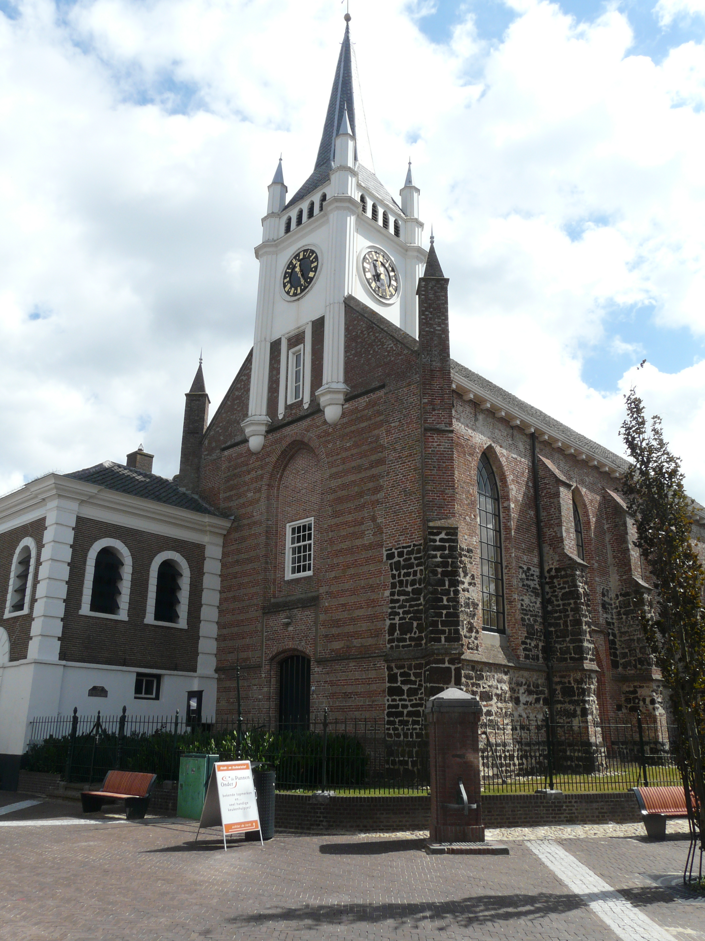 Brigitta, Dutch Reformed Church in Ommen